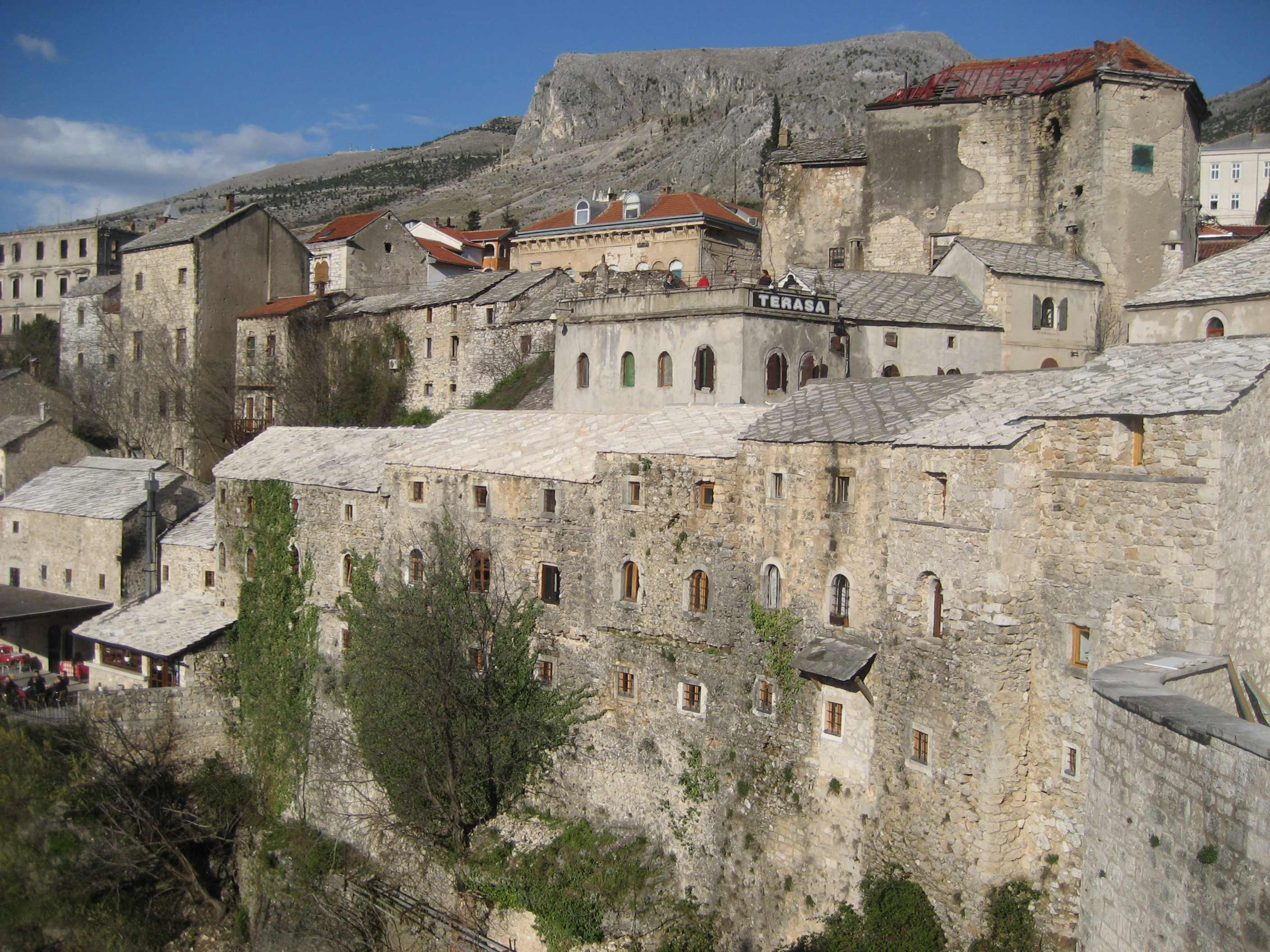 Mostar Old Town